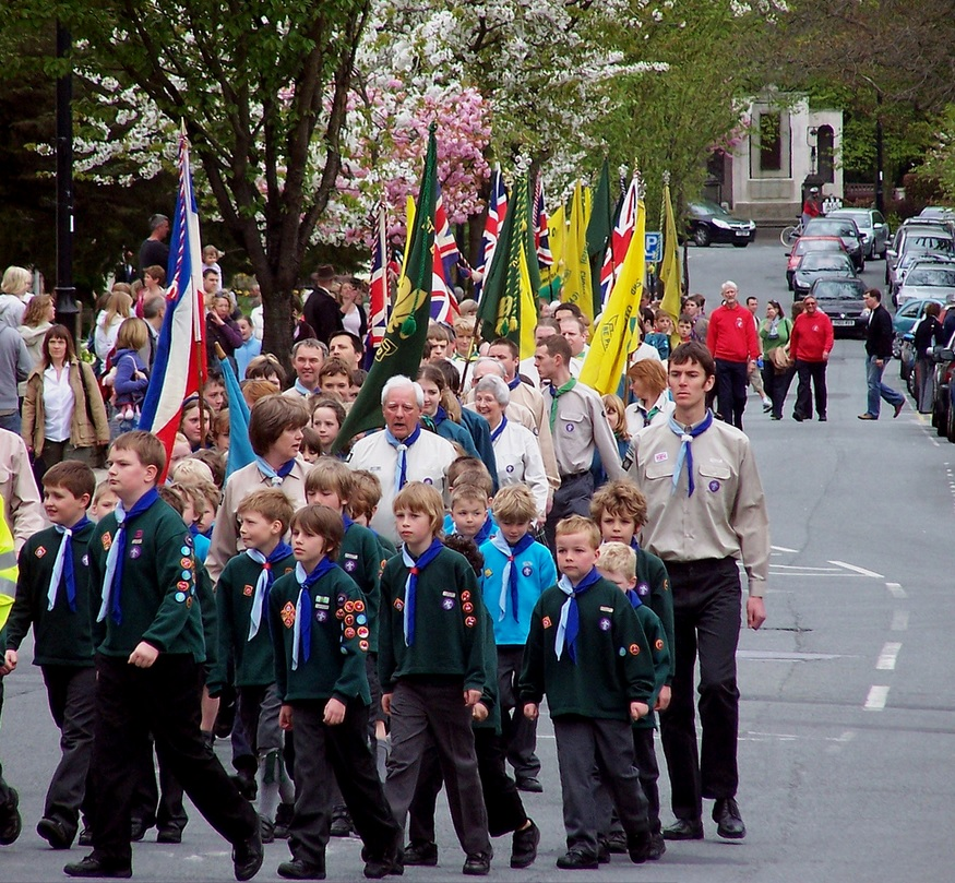 A St George's Day procession, 2010